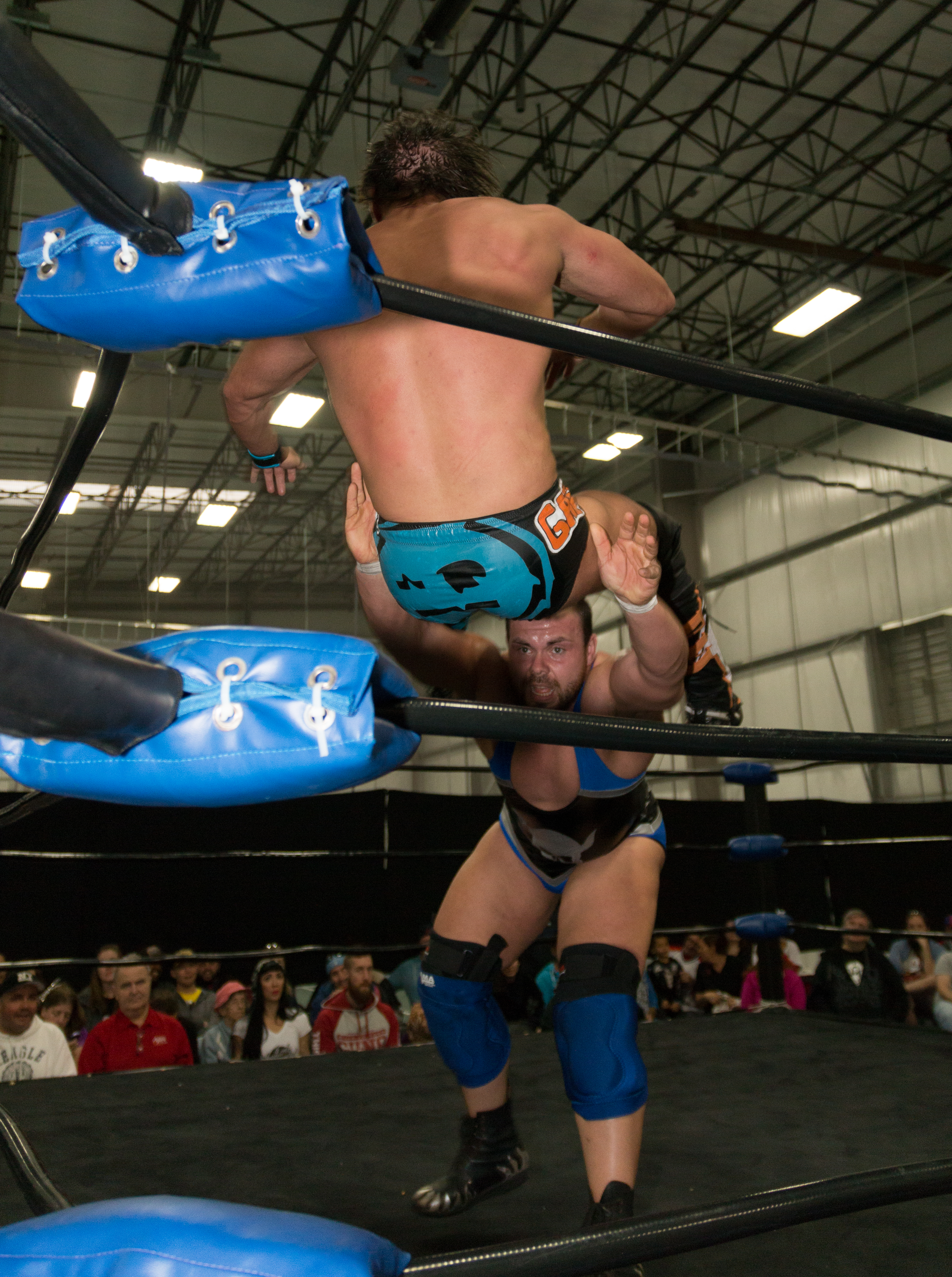 Independent wrestler Michael Elgin executing a turnbuckle powerbomb on Johnny Gargano (back to camera)